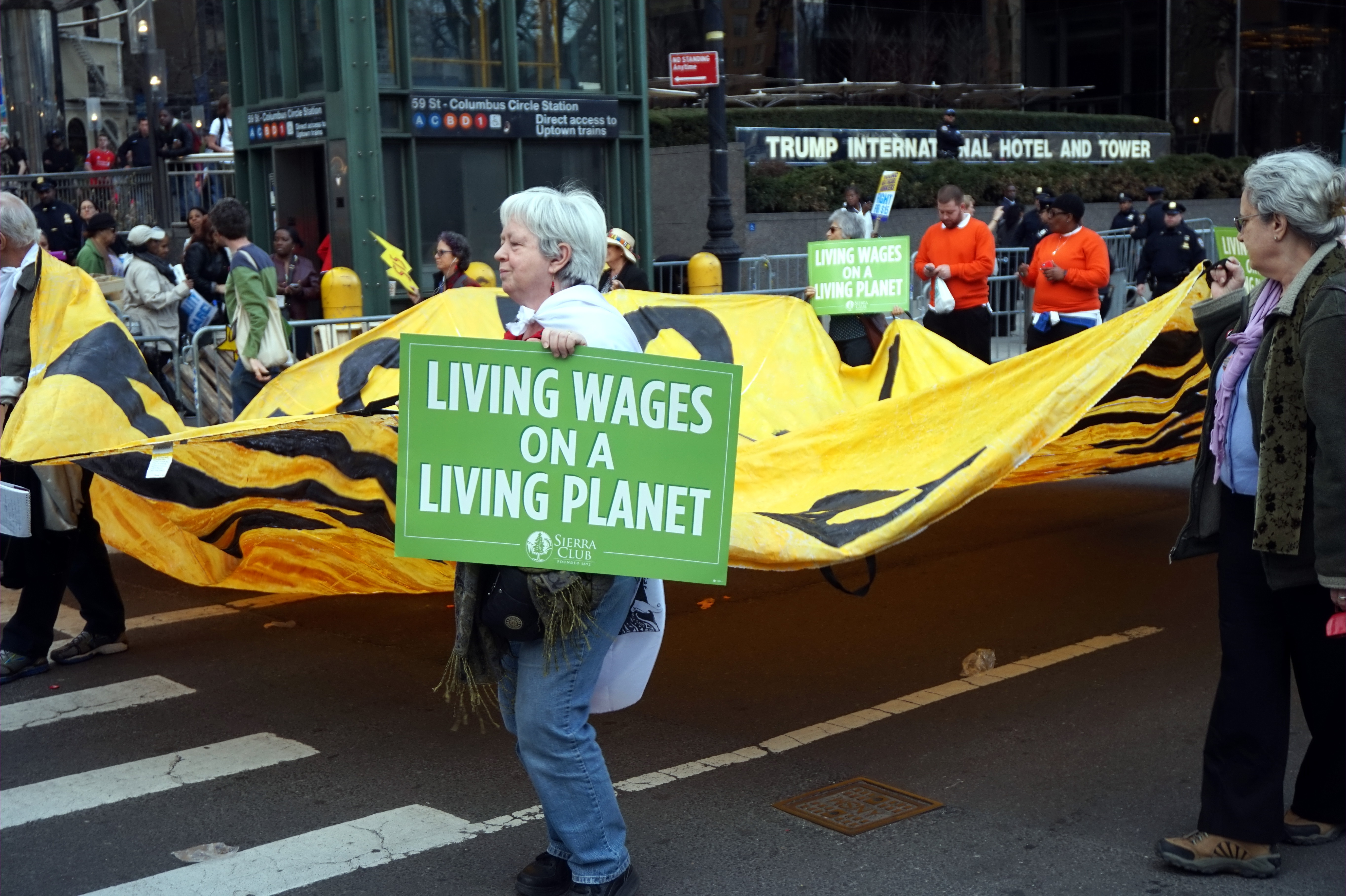 NYC Rally and March to raise the minimum wage in America.